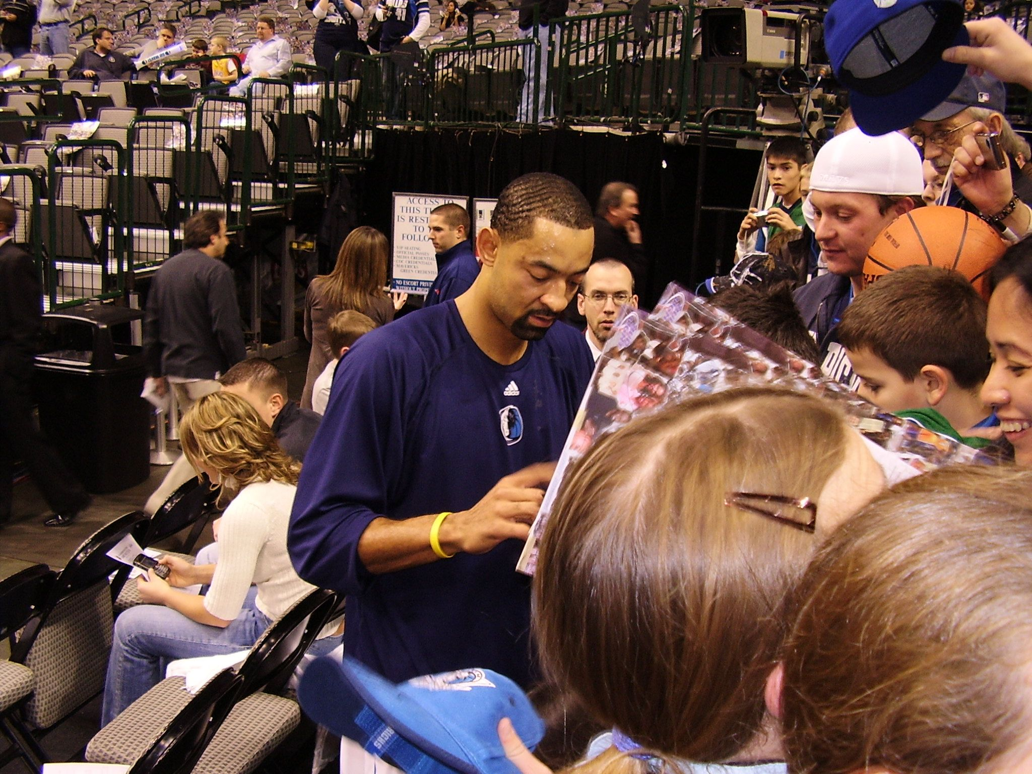 Juwan Howard signing autographs